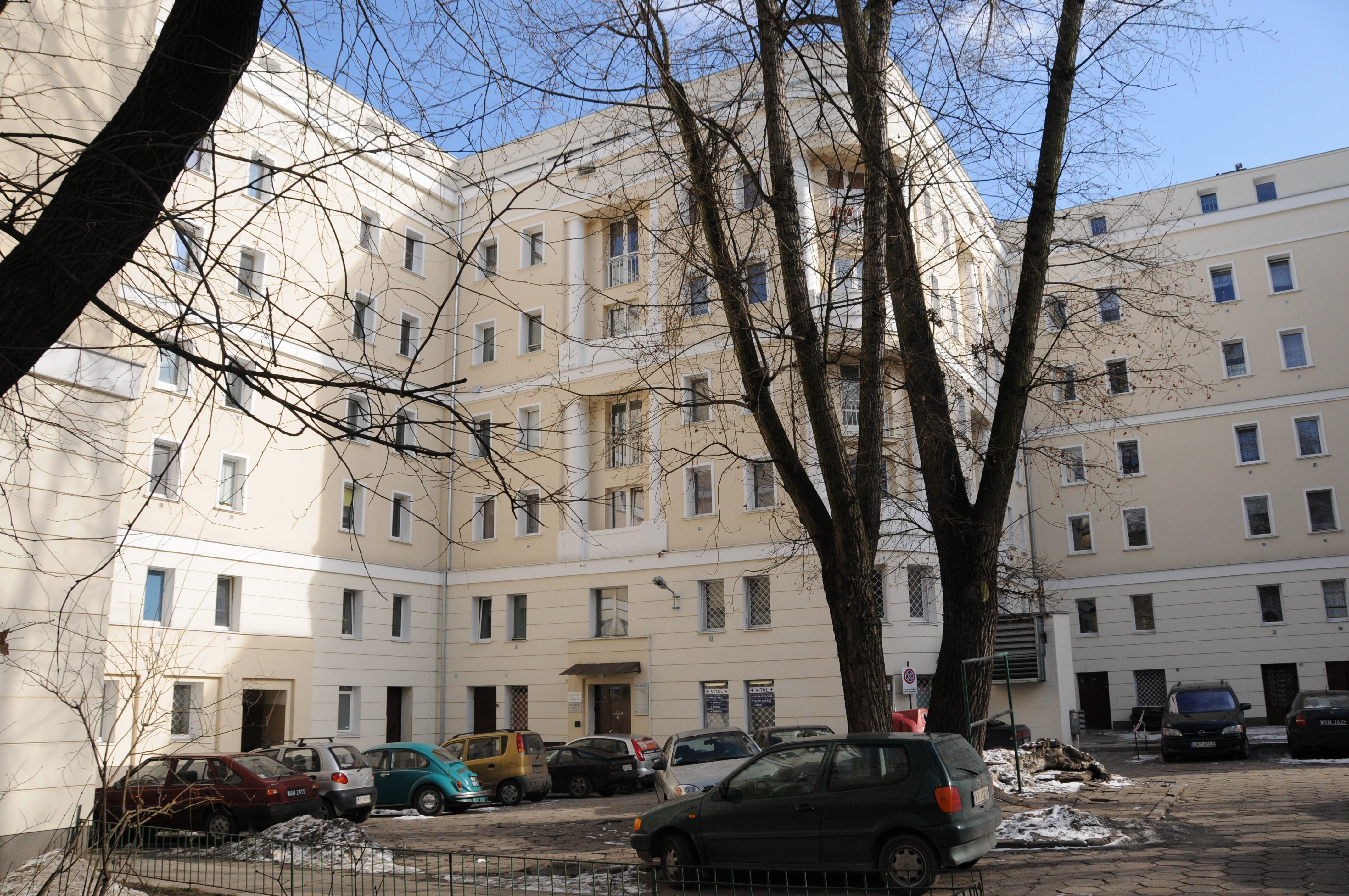 Aleja Solidarności 82a in Warsaw backyard